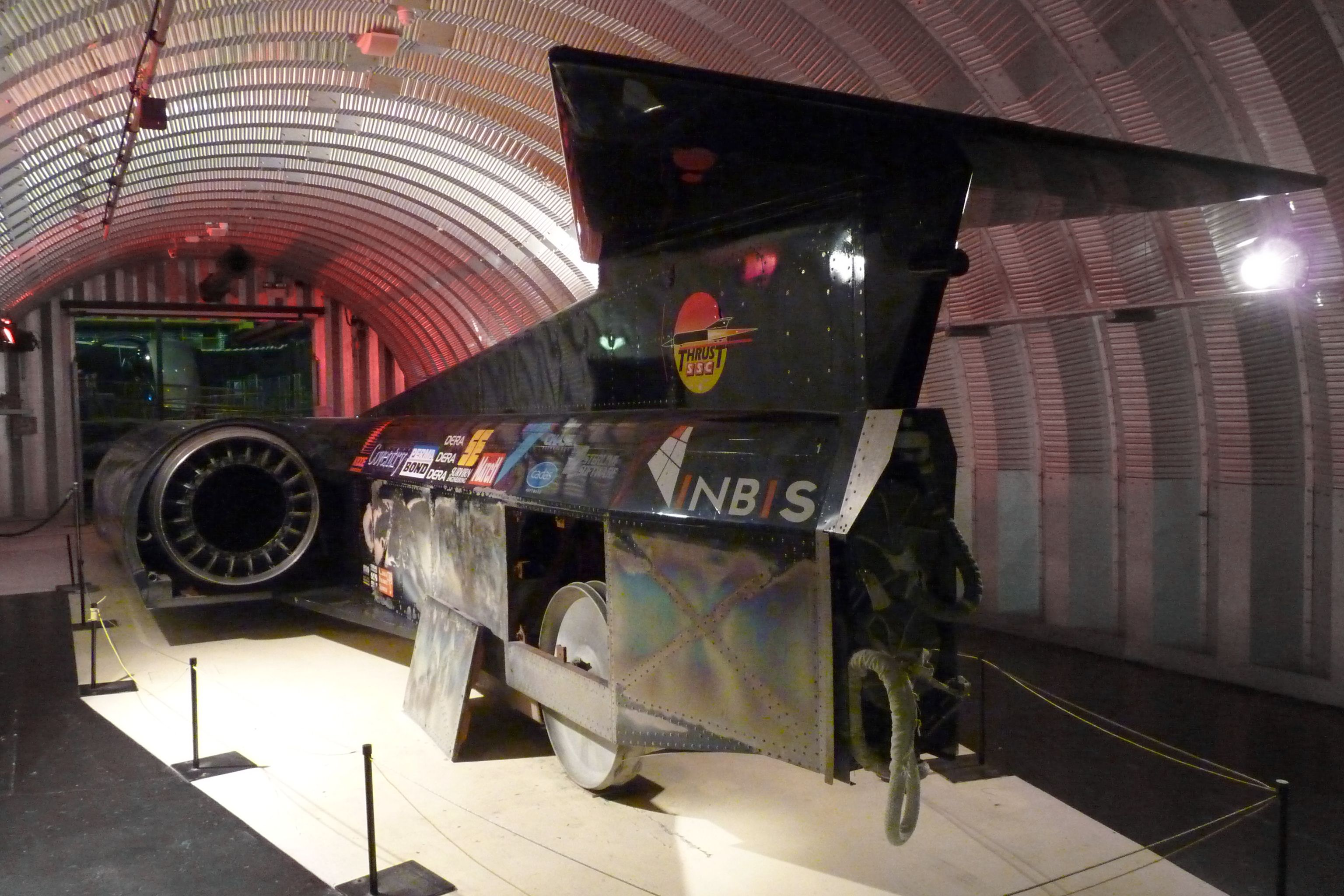 Rear view of ThrustSSC, with a panel removed to show one of the aluminium alloy wheels, at Coventry Transport Museum.